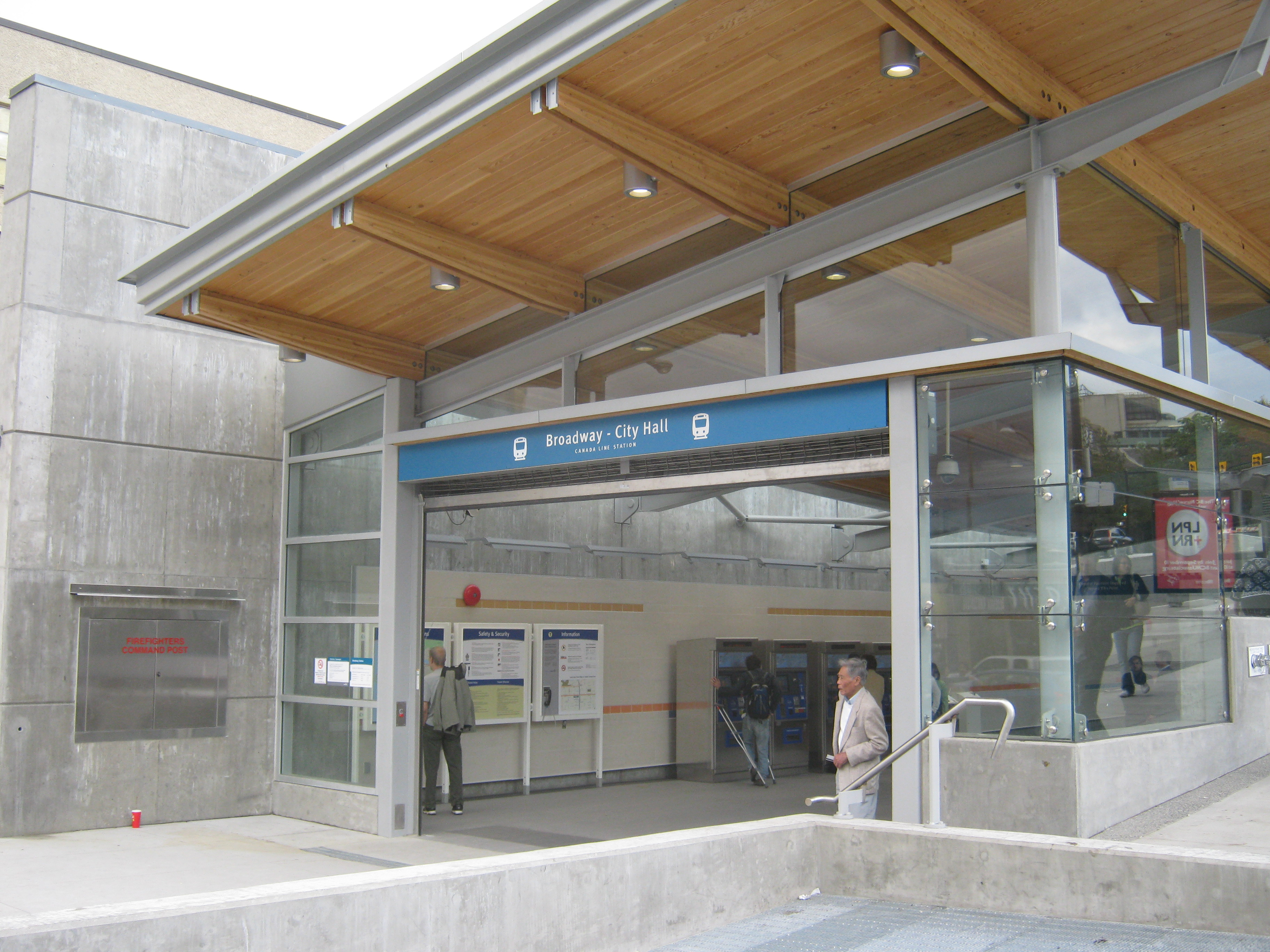 A picture of Broadway-City Hall Station, Vancouver, Canada